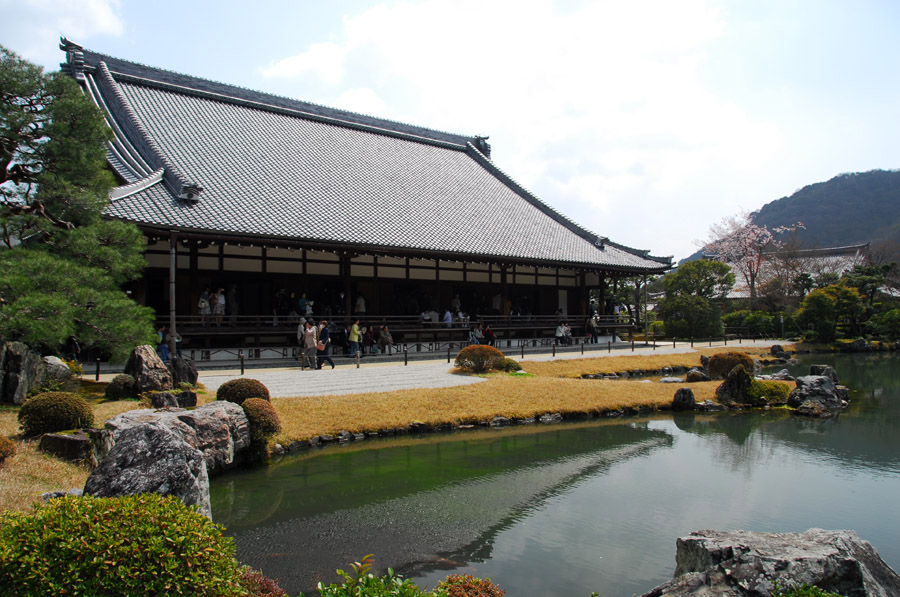 Tenryū-ji is an important Buddhism temple located in Sogano area, west of Kyoto, Japan. It was registered as an UNESCO World Heritage Site as part of the Historic Monuments of Ancient Kyoto. This photo shows famous Sōgen Pond and the main abbey of the temple, ōhōjō.